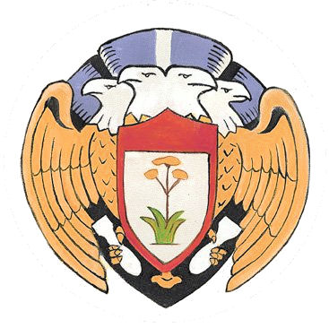 Emblem of the 100th Bombardment Group